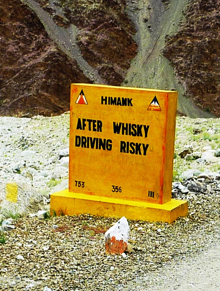 I took this photo on a driving trip to Ladakh in 2010.